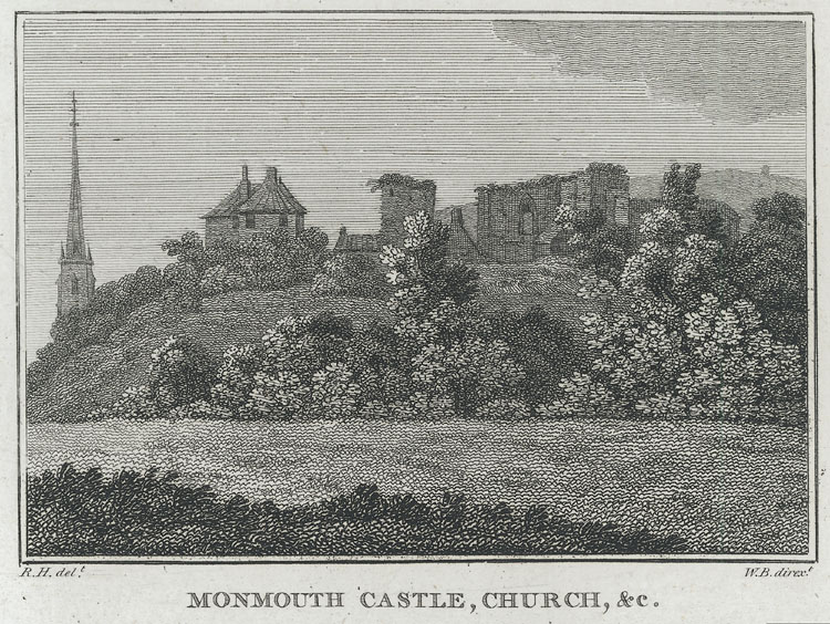 Two images, one showing the church and castle at Monmouth, the other showing boats on the river at the Monnow Bridge.